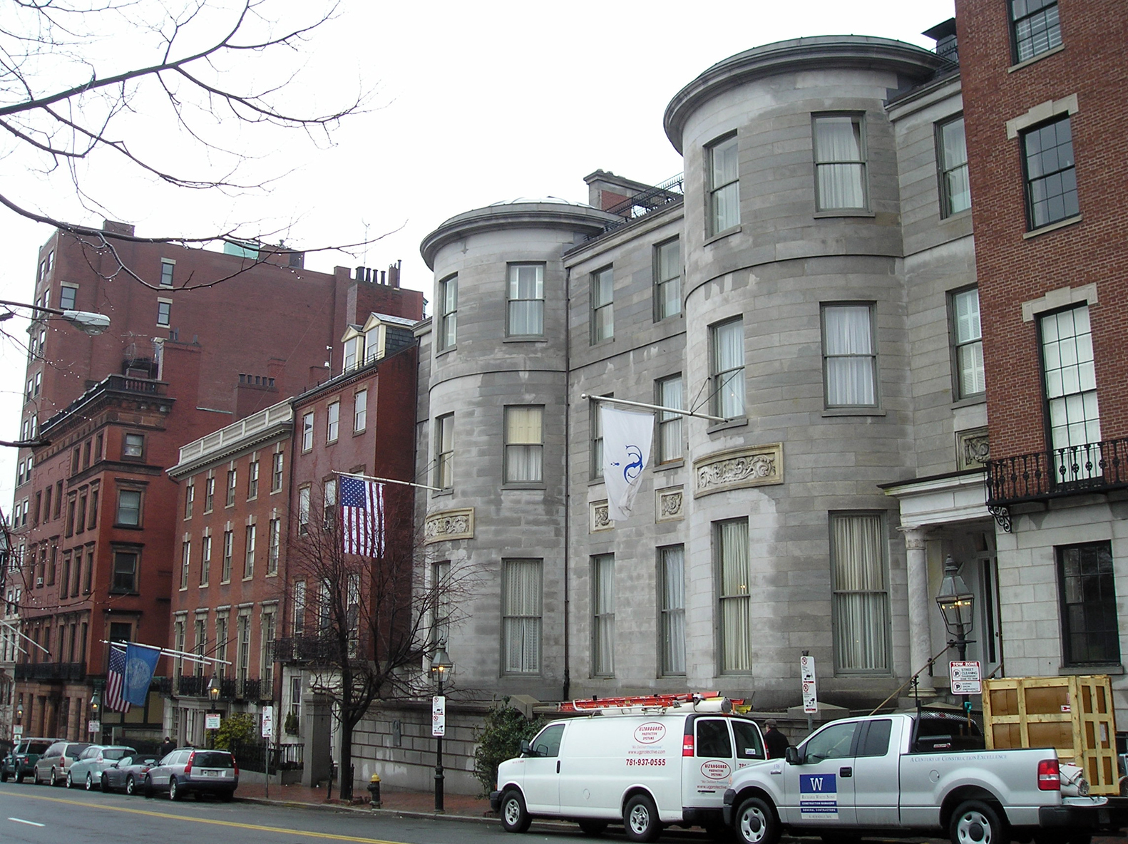 The David Sears House is the grey granite building on Beacon Street in downtown Boston, Massachusetts as photographed from the Boston Common 05 February 2008.